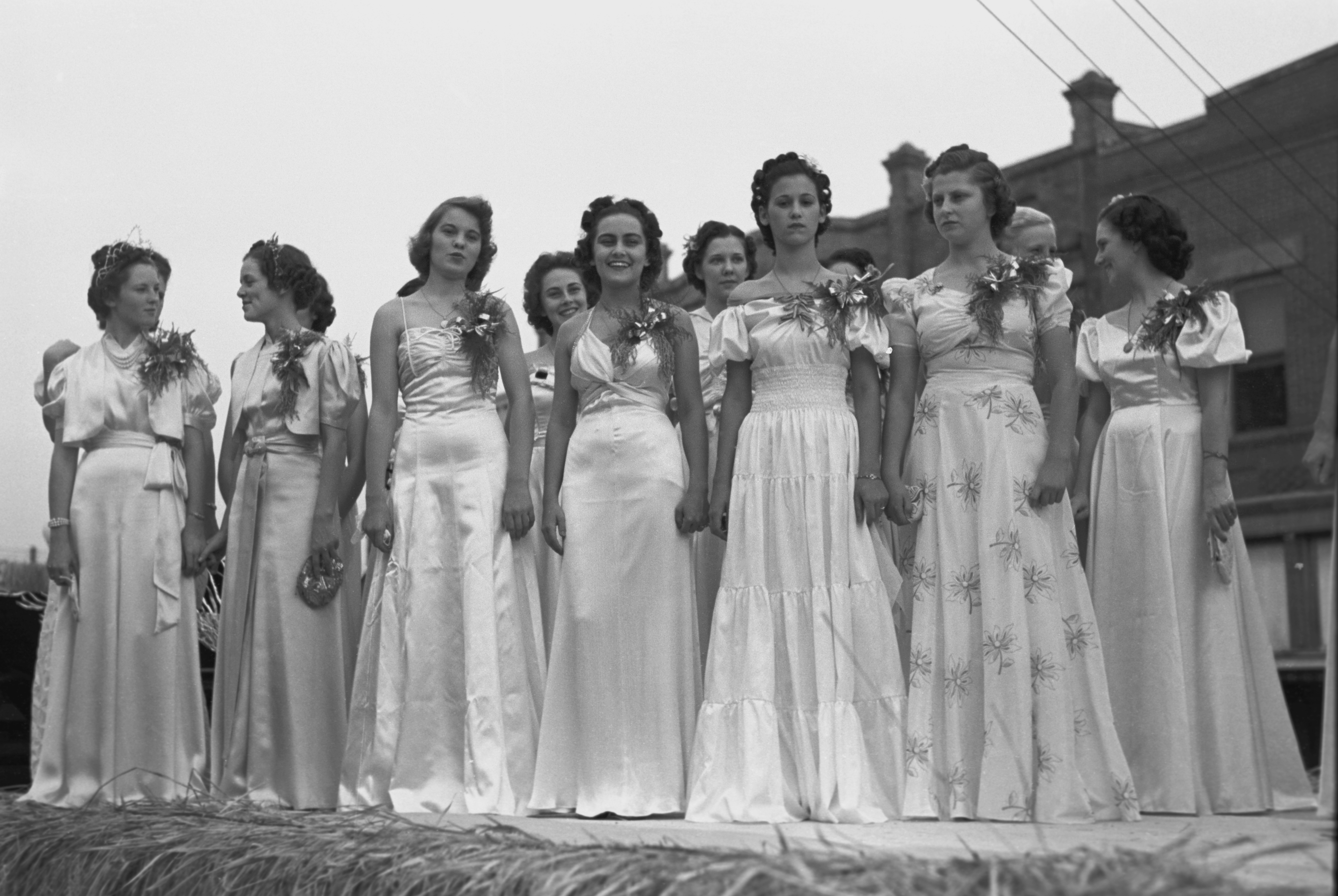 Beauty pagent contestants at National Rice Festival, Crowley, Louisiana, 1938